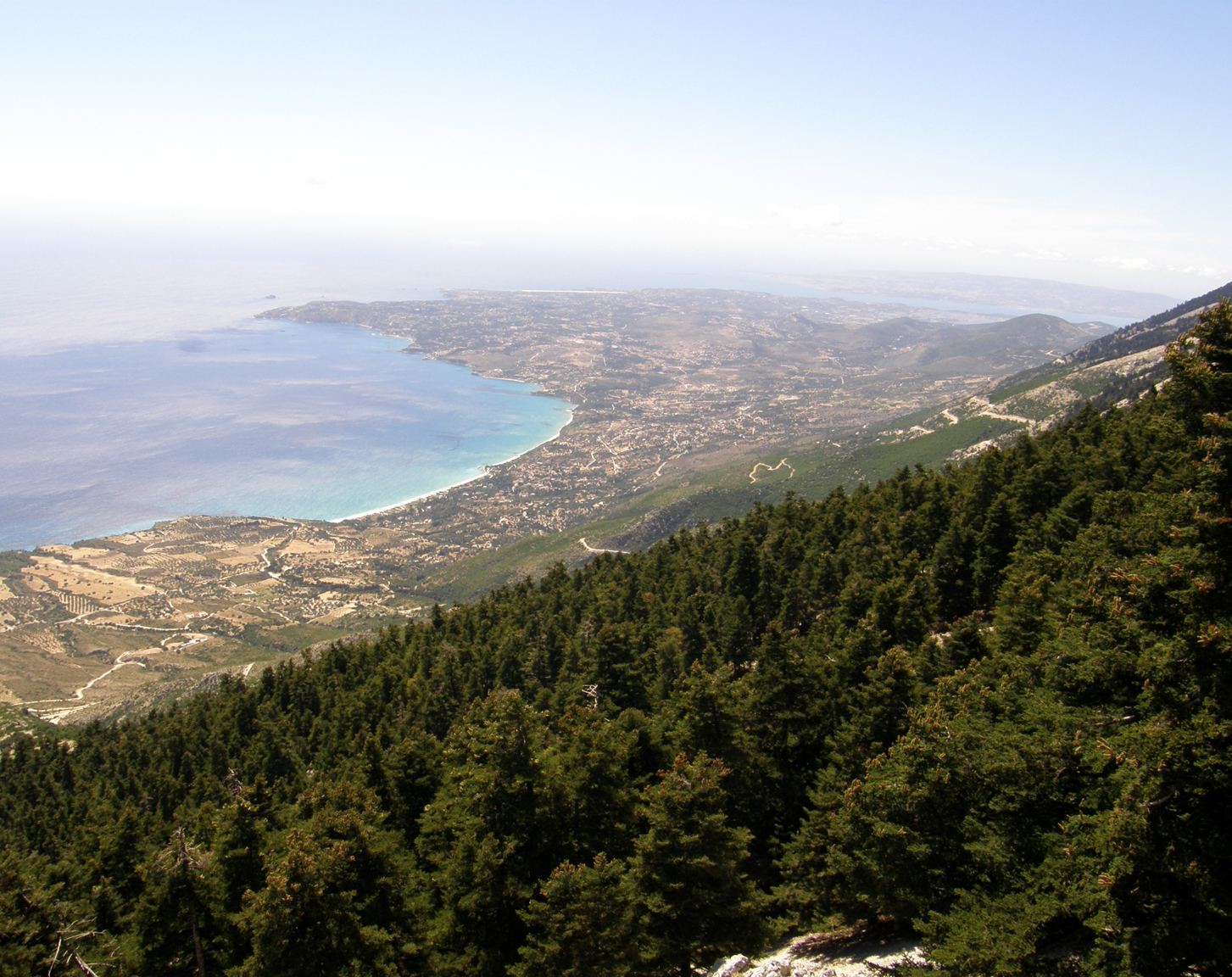 OLYMPUS DIGITAL CAMERA This is a photography of Natura 2000 protected area with ID GR2220002